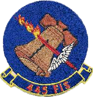 Emblem of USAF 445th Fighter-Interceptor Squadron (ADC)